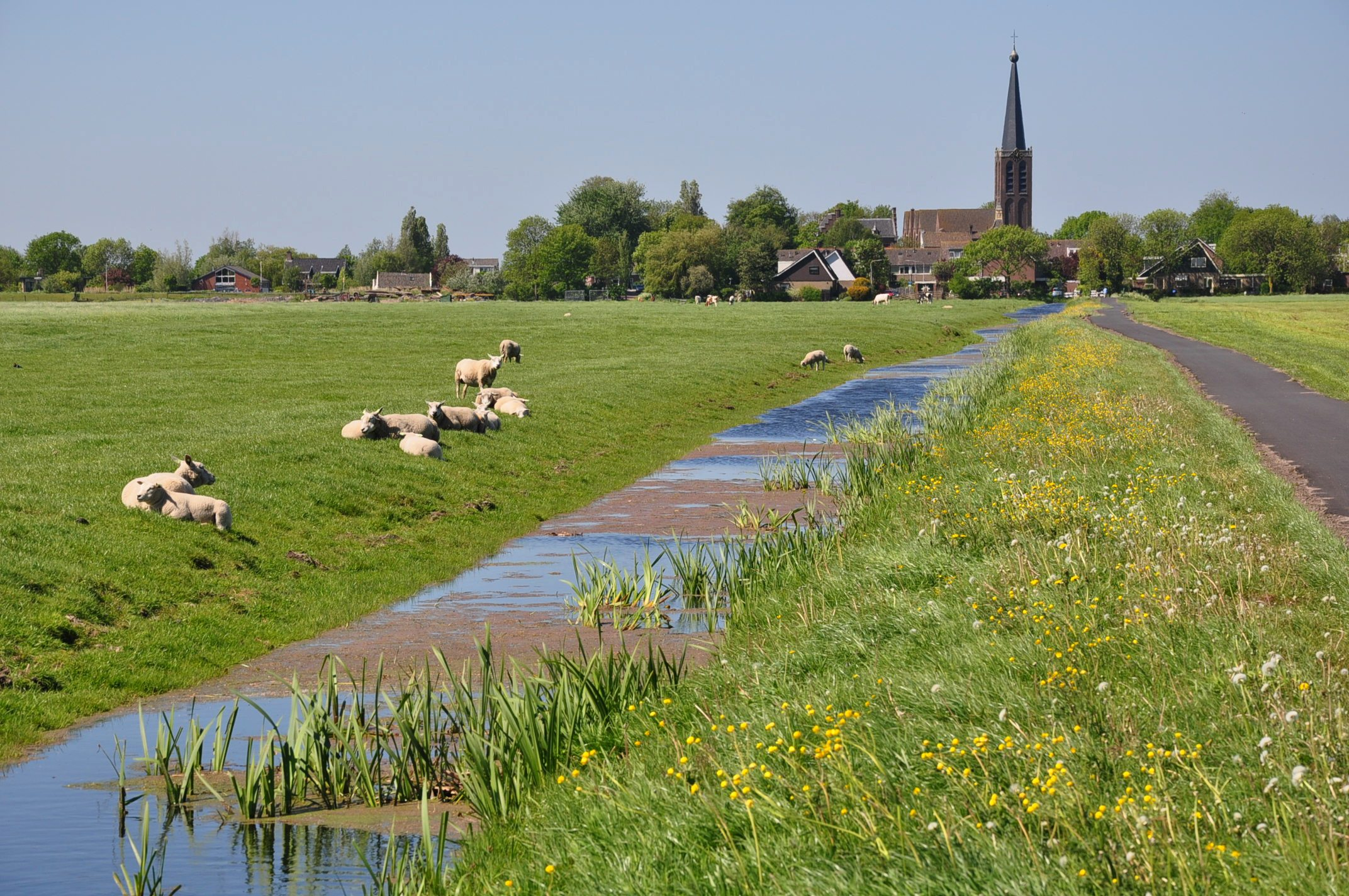 View over the Westbroek Polder towards Zoeterwoude-Zuidbuurt (municipality Zoeterwoude, Province South Holland, Netherlands). At right is an old so-called "church path" through the polder. This polder is 1.90 meter below sea level.